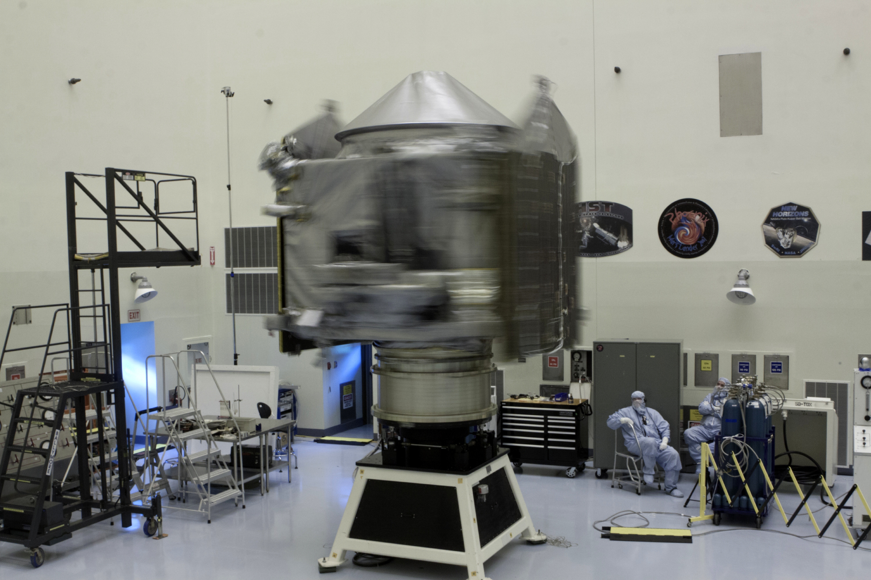 Inside the Payload Hazardous Servicing Facility at NASA's Kennedy Space Center in Florida, engineers and technicians perform a spin test of the Mars Atmosphere and Volatile Evolution, or MAVEN, spacecraft. The operation is designed to verify that MAVEN is properly balanced as it spins during the initial mission activities.